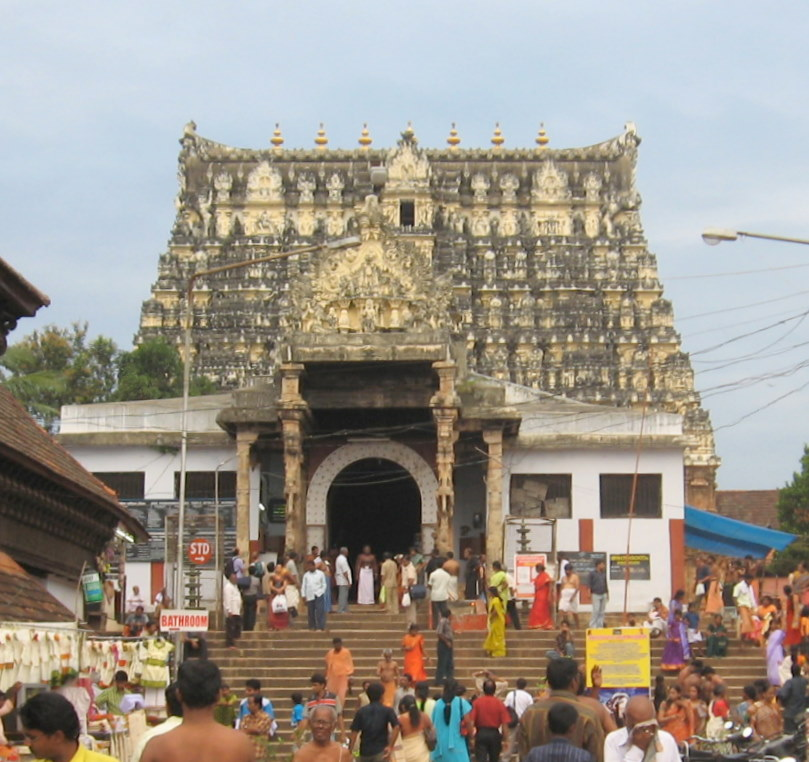 Sree Padmanabhasawmy Temple at Thiruvanthapuram